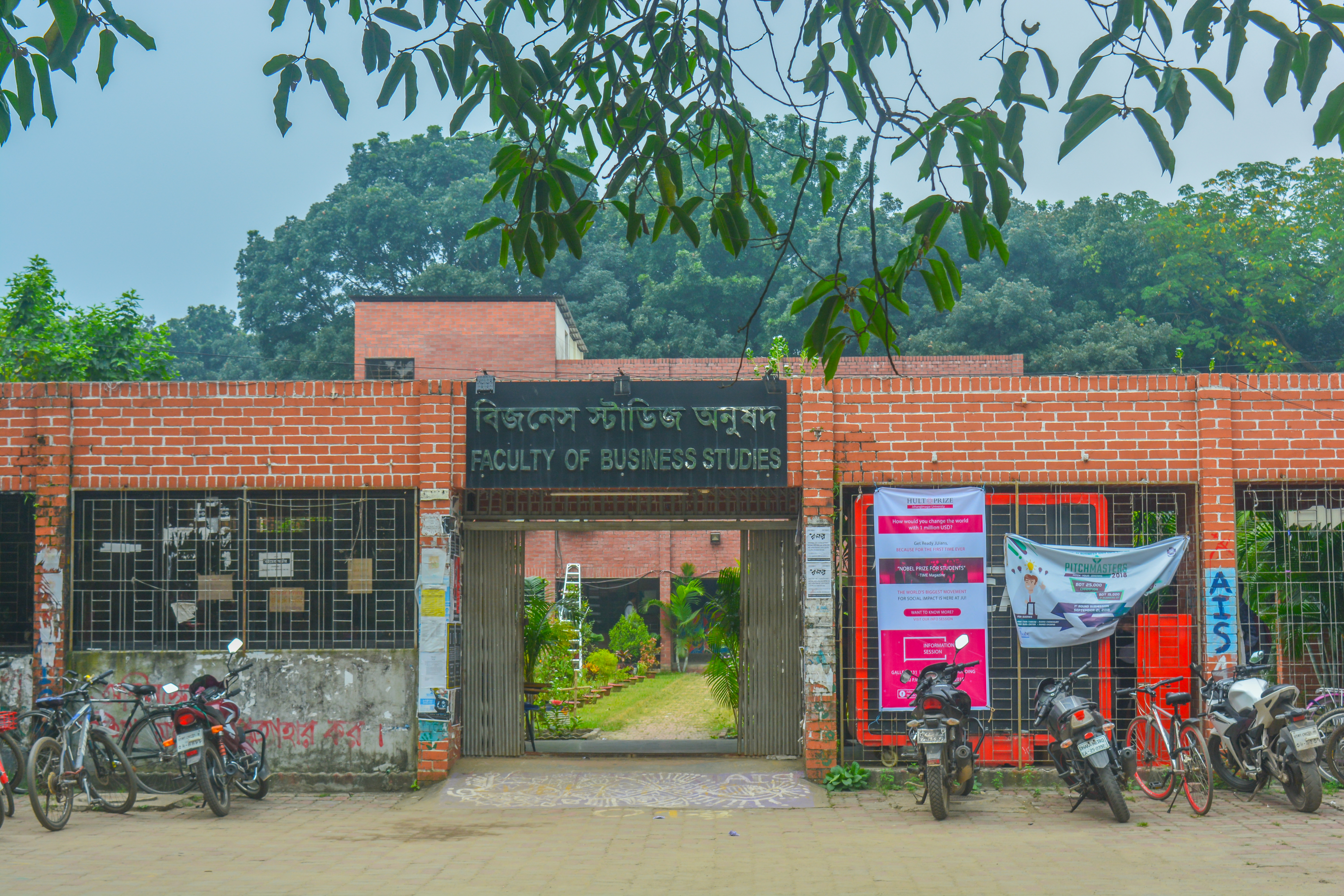 Faculty of Business Studies (FBS), Jahangirnagar University. The Faculty of Business Studies was established with a mission to produce efficient business graduates who will contribute sharply for fostering the economic growth of our nation. The FBS, as it stands now, has a short history. The department of Finance & Banking and the department of Marketing were established under this Faculty in the year 2009. In the following year i.e. 2010, the department of Accounting & Information Systems and Management Studies were launched. The semester system was introduced in this Faculty from very beginning i.e. the first batch (session 2009-2010). Currently, the Faculty is offering Bachelor of Business Administration (BBA) and Master of Business Administration (MBA) degrees for undergraduate and post-graduate students respectively. At present there are a good number of quality teachers, skilled employees and around 2000 students in the four (04) departments under this Faculty. The Faculty is also planning to introduce few new departments in future considering the strong demand for business education in our country.